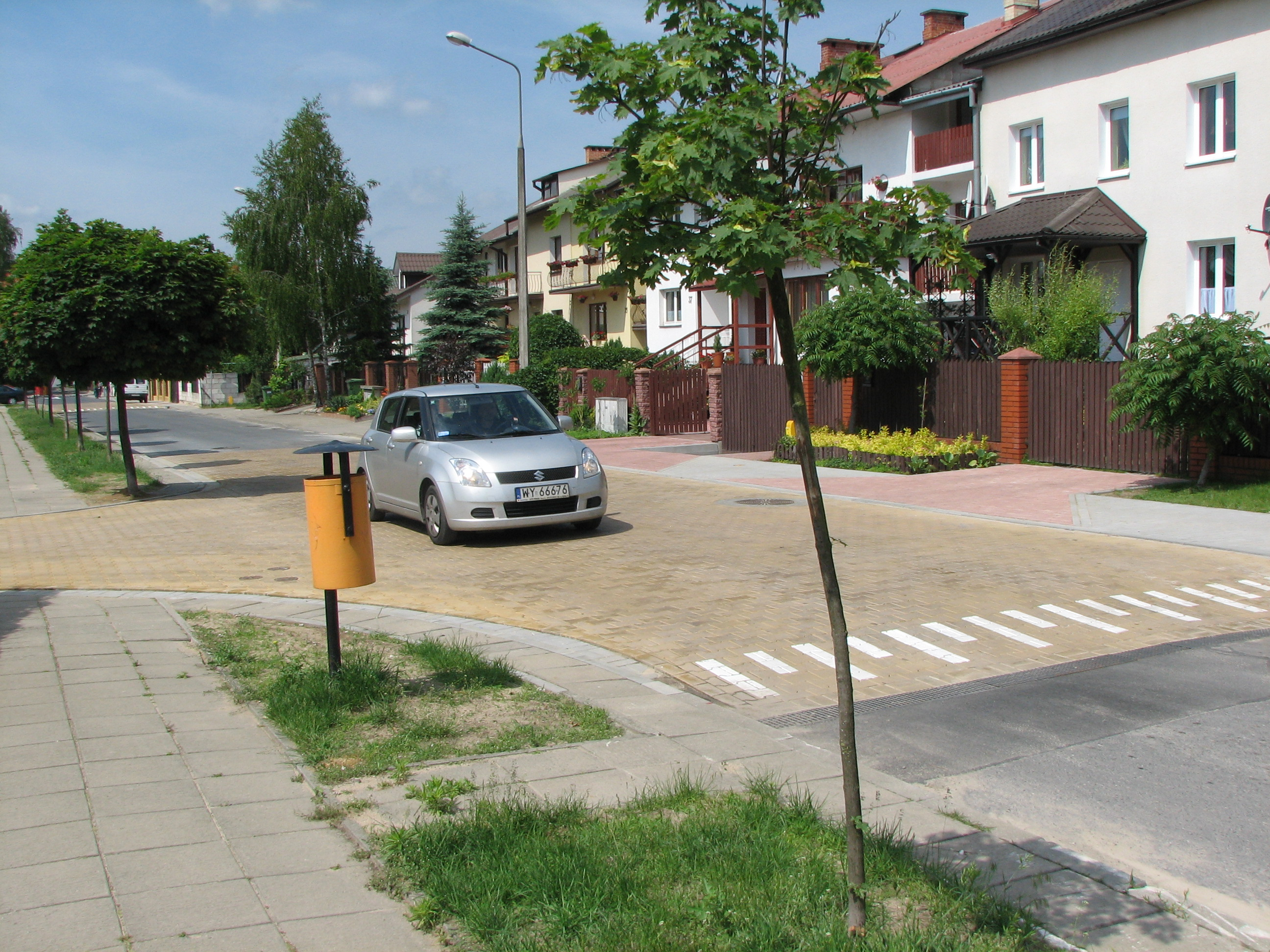 Plateau (raised intersection) in Poland.